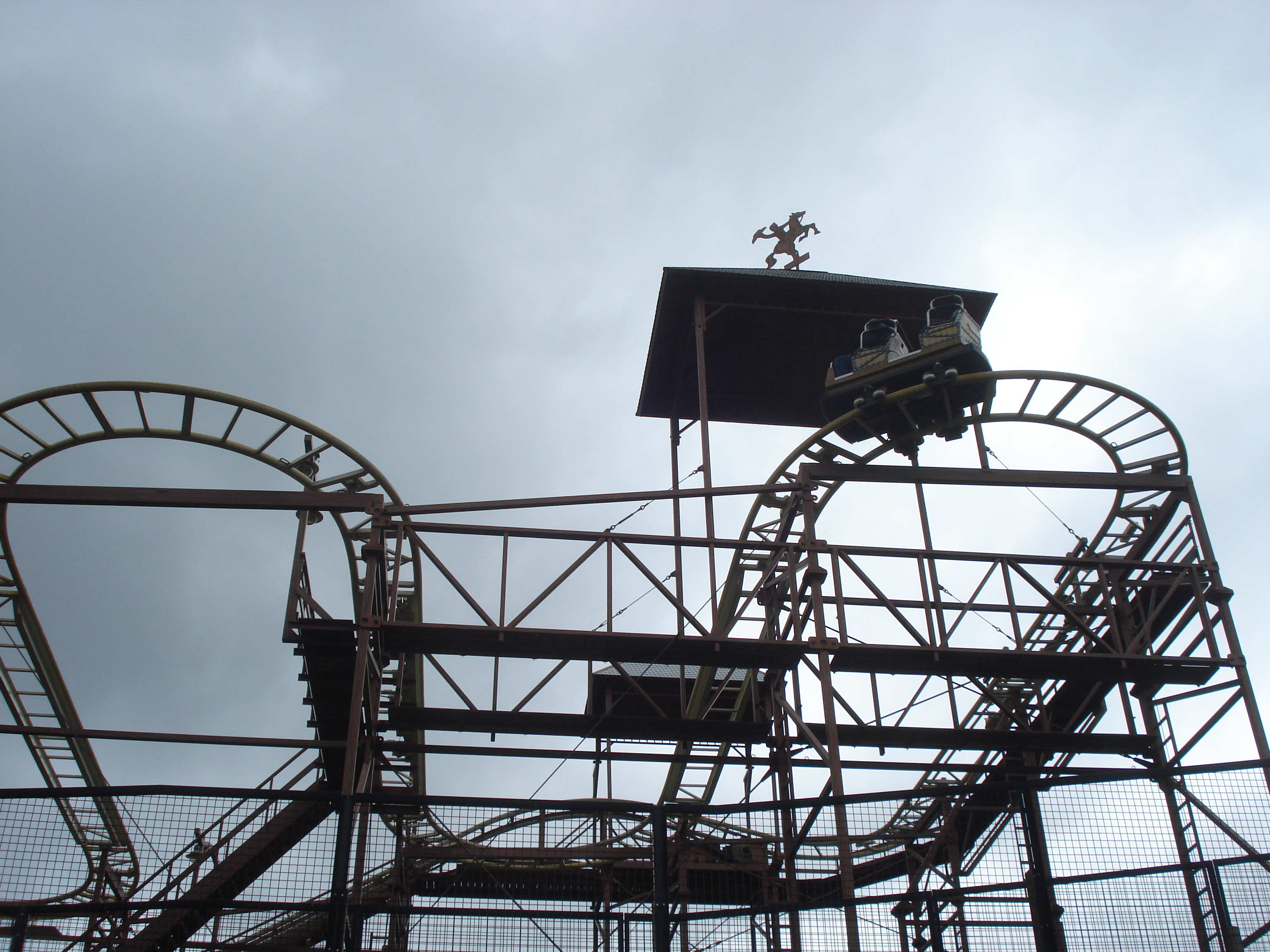 Bobbejaanland Speedy Bob